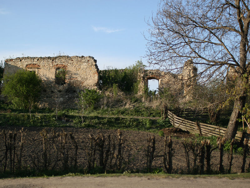 Ruins of castle in Aghireşu, Cluj county, Romania